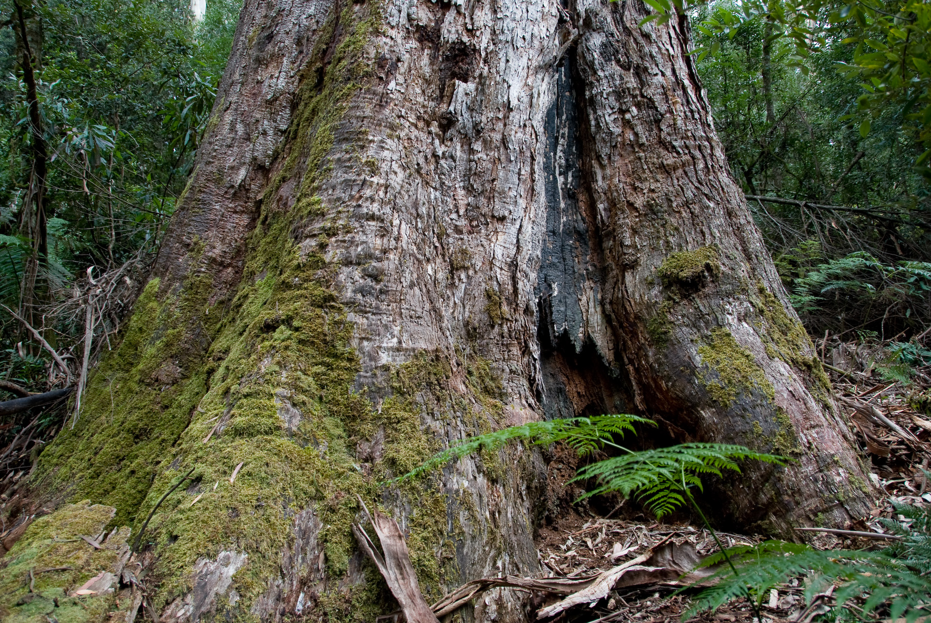 Brown Mountain, Victoria, Australia. Photographs from Brown Mountain 2008-03-23: These photos were taken along the Goongerah Old Growth Forest Walk [1] between Legges Road and the creek to its east[2]. The walk continues from the creek to Errinurndra Road. However, no photos in this set are from that section, which has now been cleared. The area is also known as "Coupe 840-502-0020" and has been logged and reduced to smouldering ashes, destroying one half of the walking track despite the Victorian Labor Government's 2006 promise that "...a Labor Government will immediately protect remaining significant stands of old-growth forest currently available for timber harvesting...". The Labour government also made an election promise to "Invest $1.3 million to create ... the Great Short Walks of East Gippsland", which was to include the "Old Growth Walk - Goongerah". Goongerah is the nearest settlement to Brown Mountain. The clearing of the 600+ year old trees and destruction of old growth forest gave employment to a group of only five people for just four weeks. ↑ Also known as: Valley of the Giants (by Environment East Gippsland), "The Walk" (by VicForests), Land of the Leviathans, or less formally as "The Brown Mountain big old giant trees walk". ↑ Brown Mountain Creek (possibly also known as Sassafras Creek Gully)